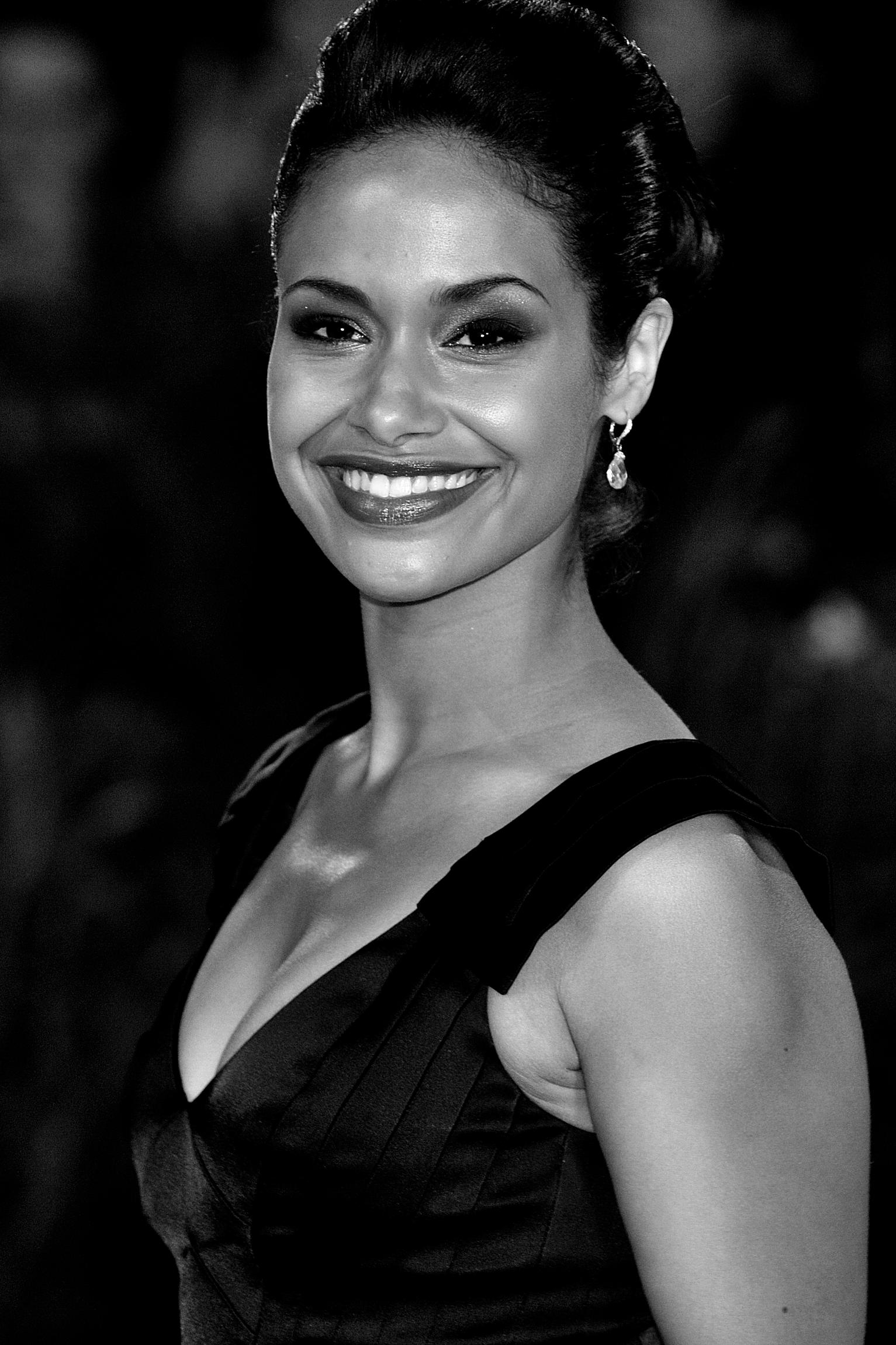 Actress Shannon Kane - 66th Venice International Film Festival.